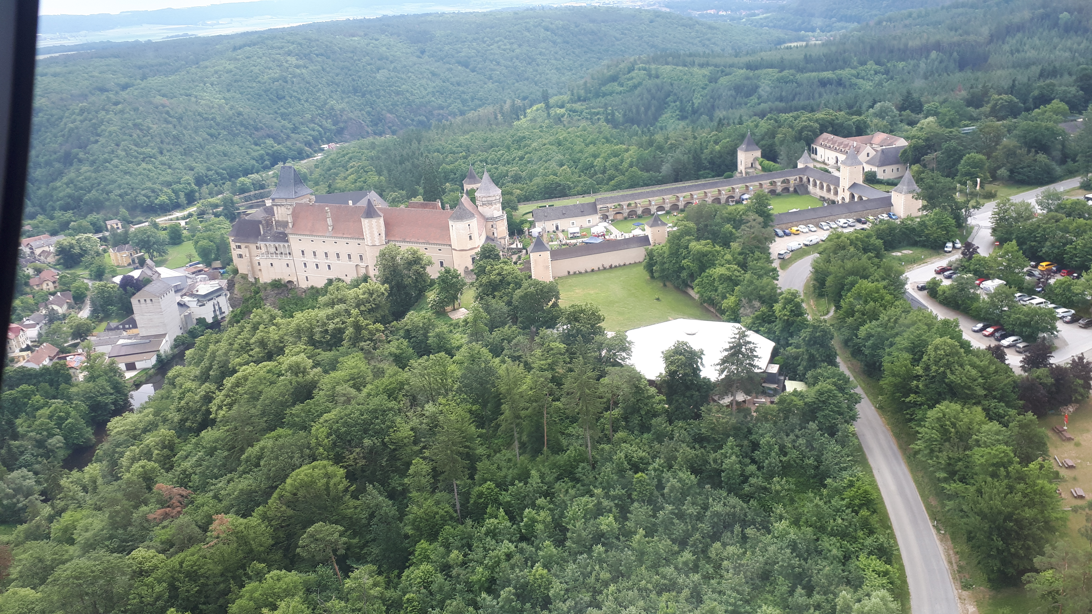 Schloss Rosenburg, seen from north from Helicopter